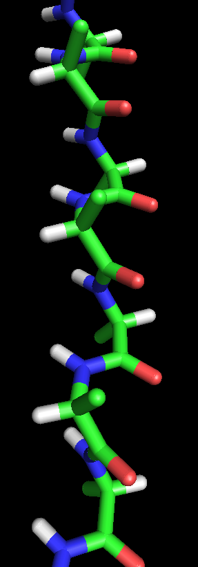 Peptide chain in an alpha-sheet conformation, alternating left- and right-handed alpha-helical dihedral angles.